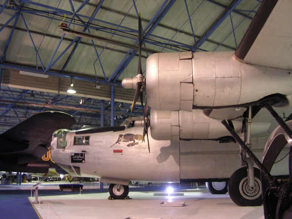 Author